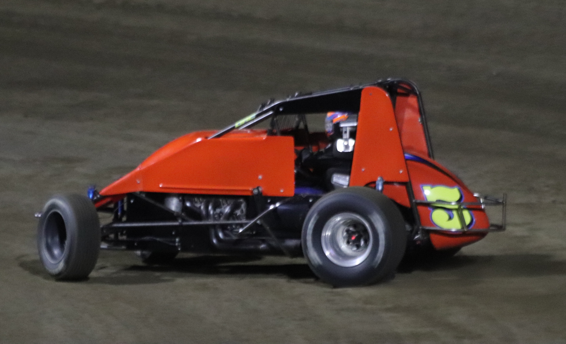 The wingless Sprint Car of Chris Windom at the 2018 Kokomo Klash at Kokomo Speedway.